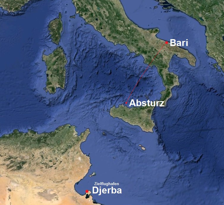 Route of Tuninter 1153 from Bari to Djerba, crashed in front of the coast of Palermo